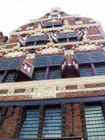 Building 'Dit is in Bethlehem; Gasthuisstraat 25; Gorinchem; The Netherlands